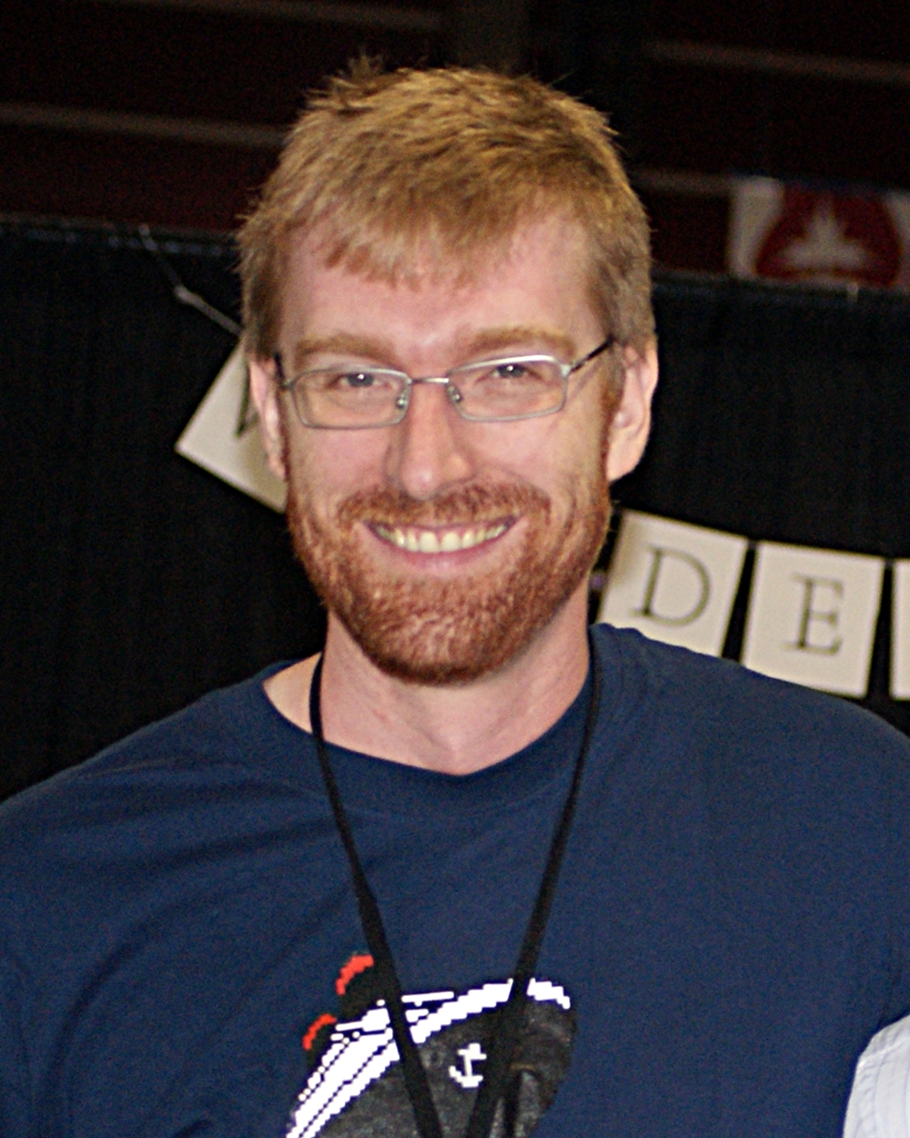 Ryan North, born October 20, 1980, is a Canadian writer and computer programmer who is the creator and author of "Dinosaur Comics", and co-creator of "Whispered Apologies" and "Happy Dog the Happy Dog". Photo was taken at the Calgary Comic & Entertainment Expo (BMO Centre, Calgary, Alberta, Canada).